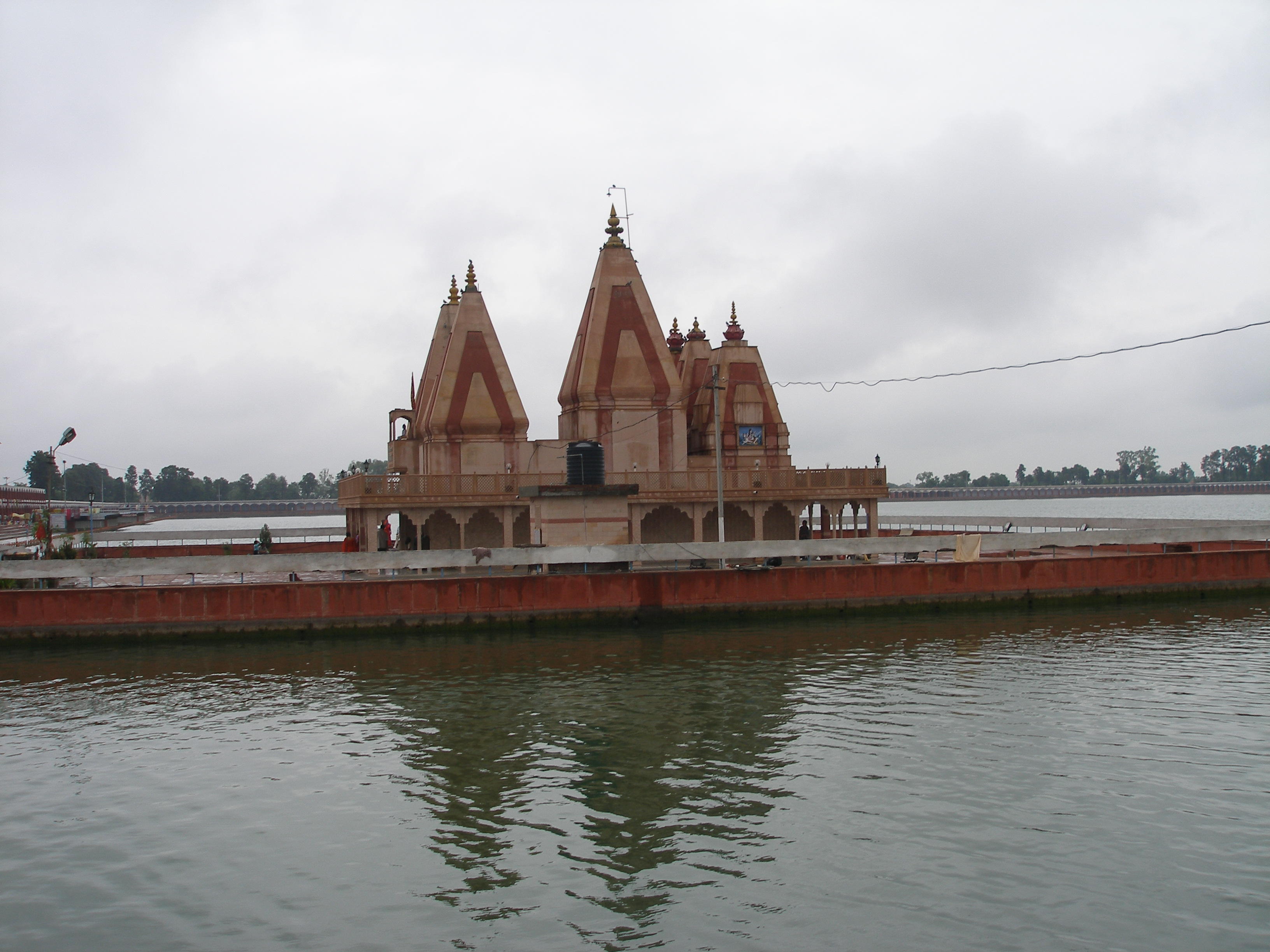 Brahma Sarovar, Kurukshetra